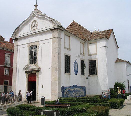 The church "Igreja de Santa Luzia" in Alfama, Lisbon, Portugal